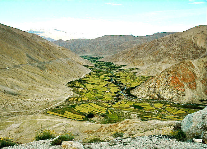 A small settlement with green farms against the bare landscape of Leh is such a refreshing sight! .. .. ( Explore )